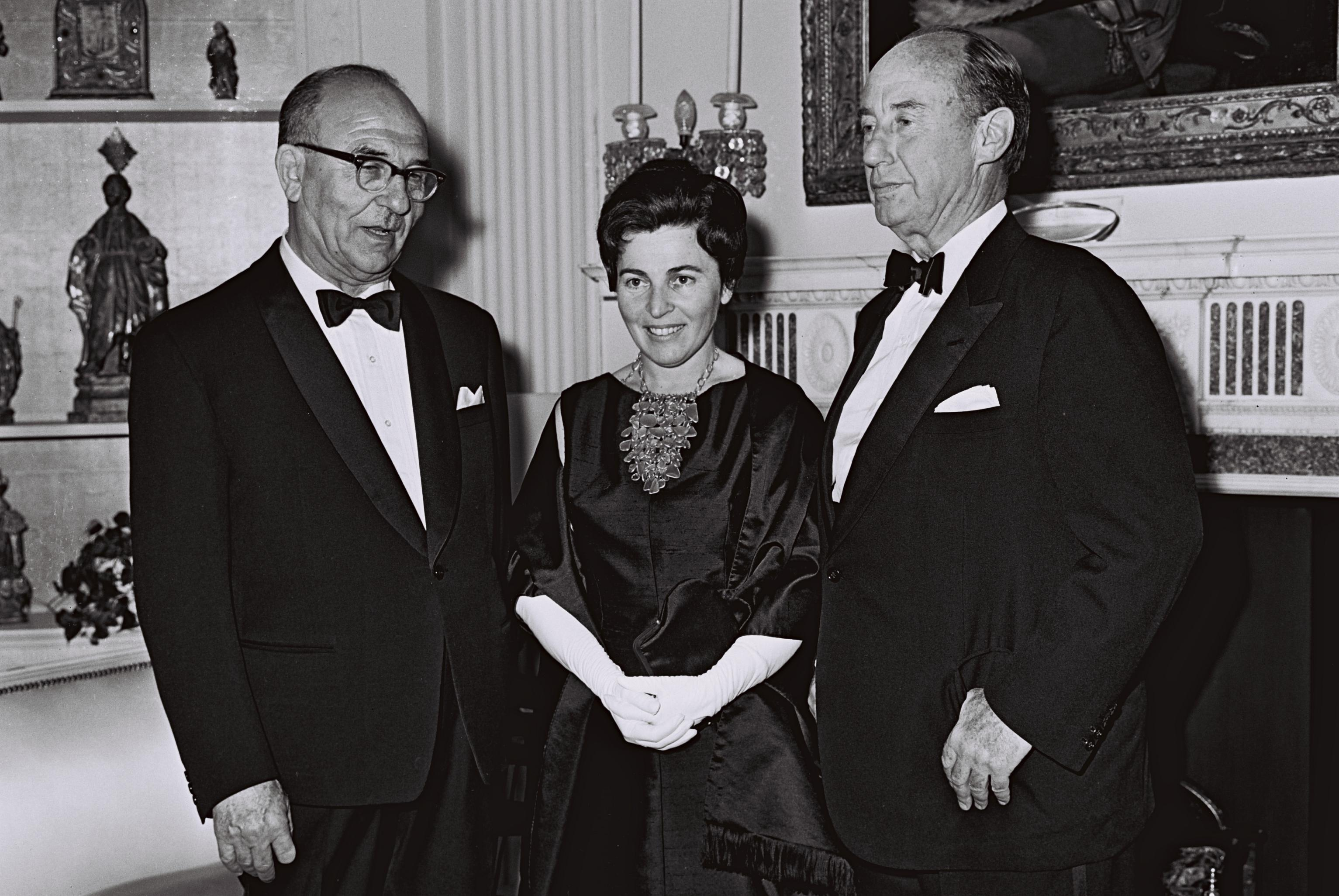 P.M. LEVY ESHKOL AND HIS WIFE MIRIAM WITH ADLAI STEVENSON BEFORE A DINNER GIVEN BY HIM IN HONOR OF THE P.M. AT THE WALDORF ASTORIA IN NEW YORK. áé÷åø øàù äîîùìä ìåé àùëåì åøòééúå îøéí áàøä"á. áöéìåí, øä"î åøòééúå òí àãìé ñèéáðñåï, áàøåçú òøá ìëáåã øä"î, áîìåï ååìãåøó àñèåøéä áðéå éåø÷.